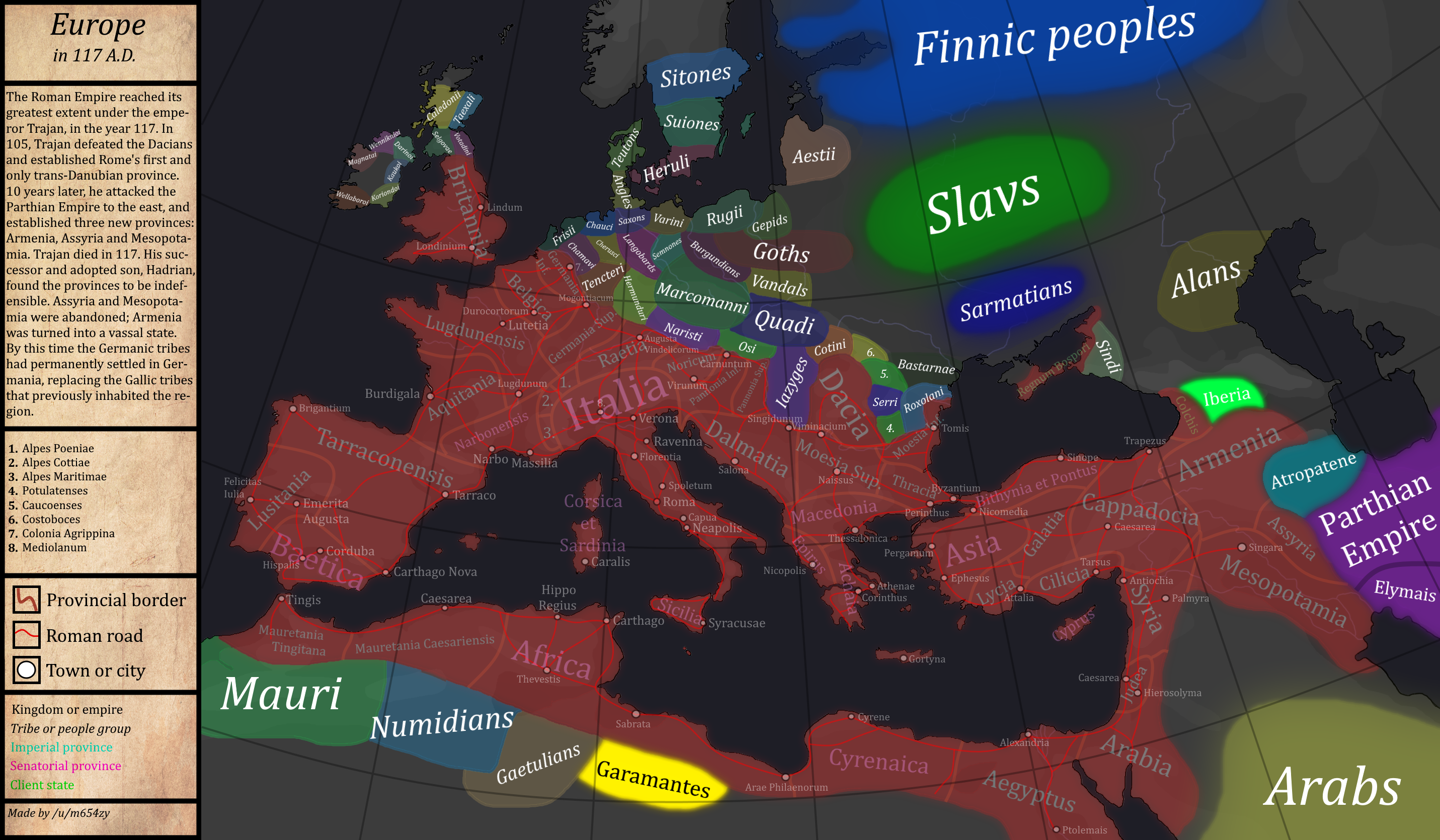 This map shows Europe and the Roman Empire at its greatest extent under Trajan in 117 AD.